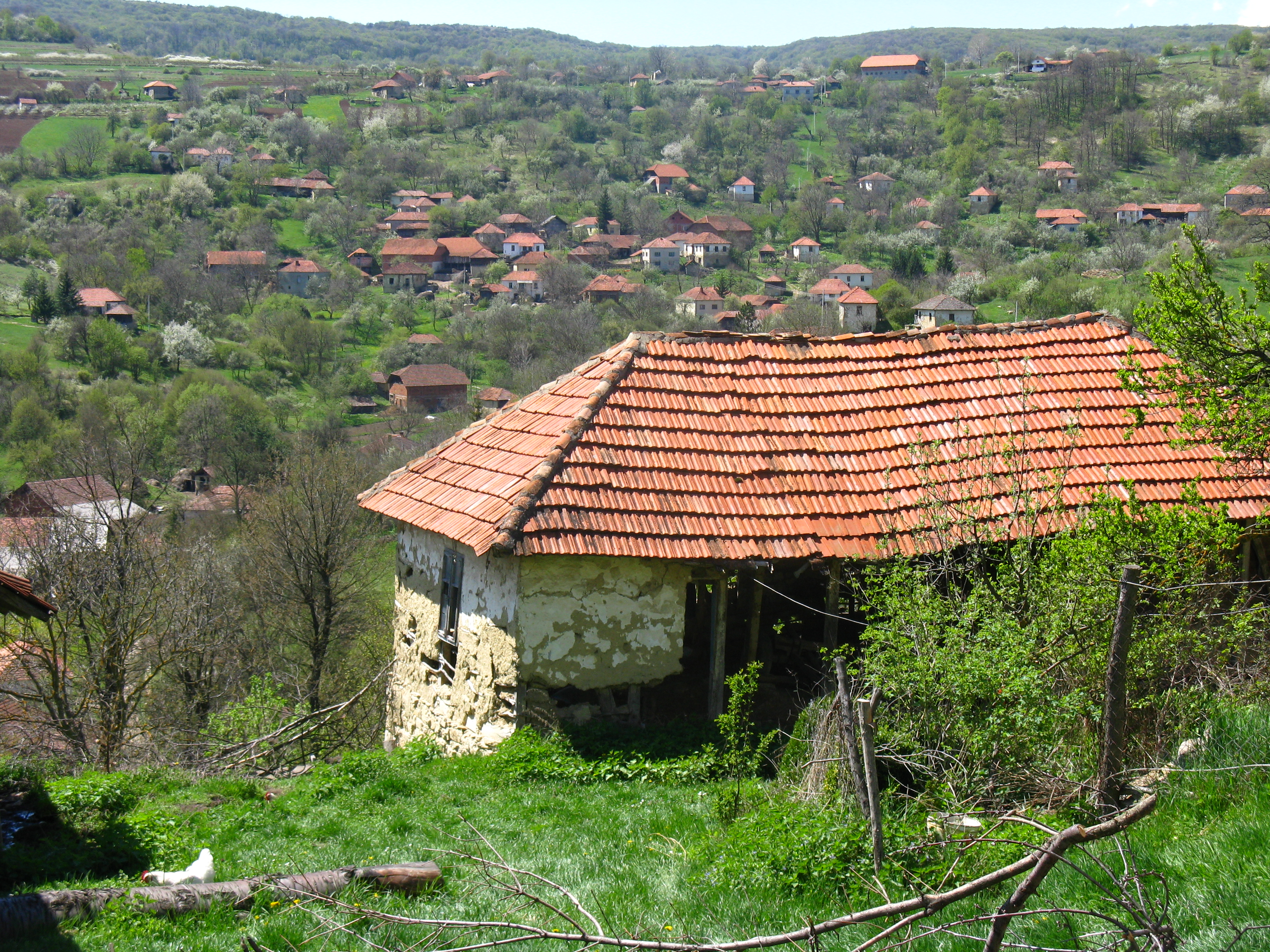 Skrobnica landscape